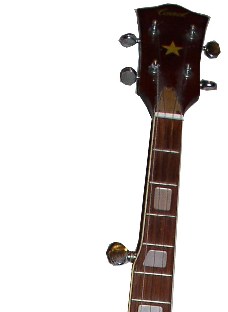 Cropped version of BluegrassBanjo.jpg from Wikimedia Commons